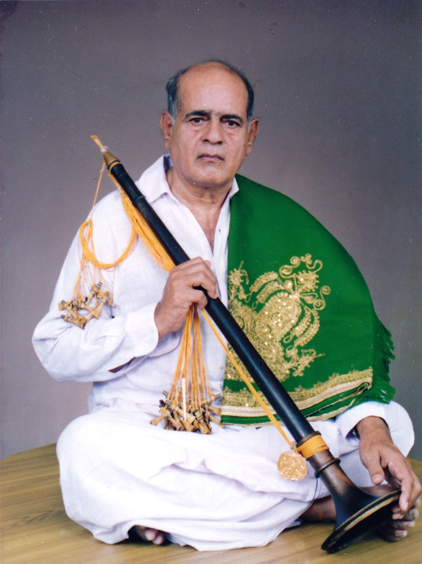 Dr. Sheik Chinna Moulana, Nadaswaram artist from INDIA.